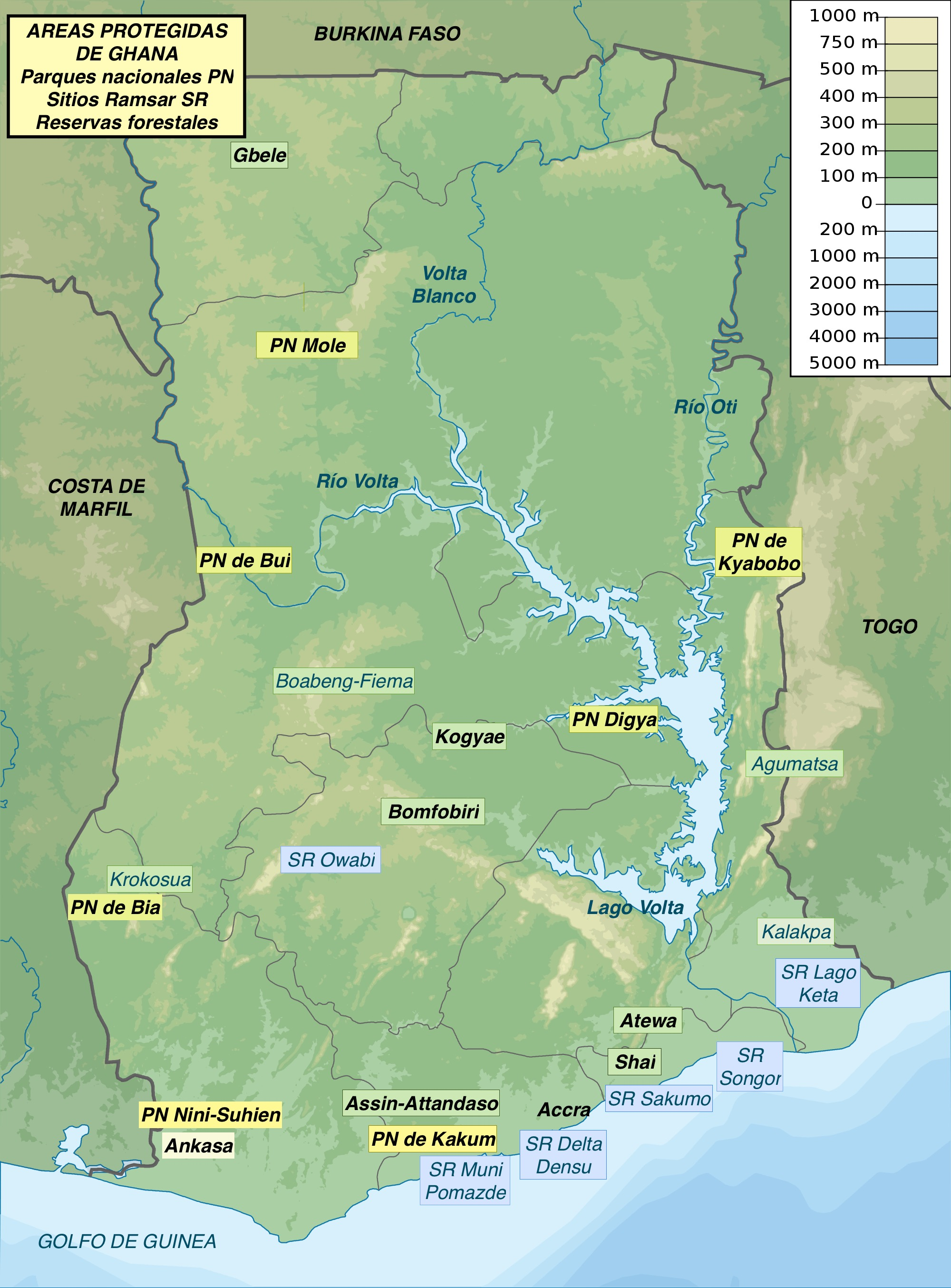 Protected áreas in Ghana